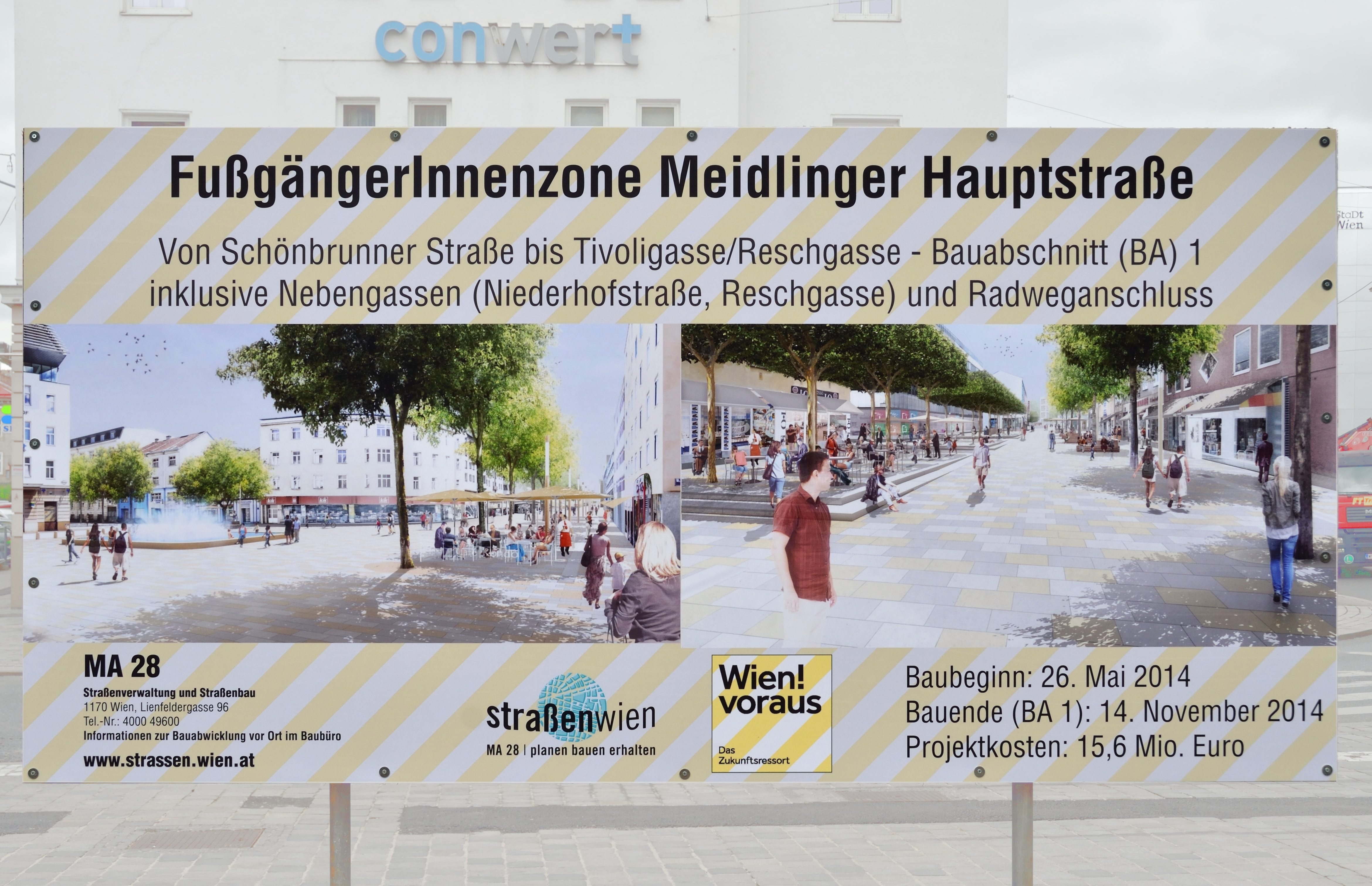 Construction site announcement at Meidlinger Hauptstraße, Vienna. May 2014.